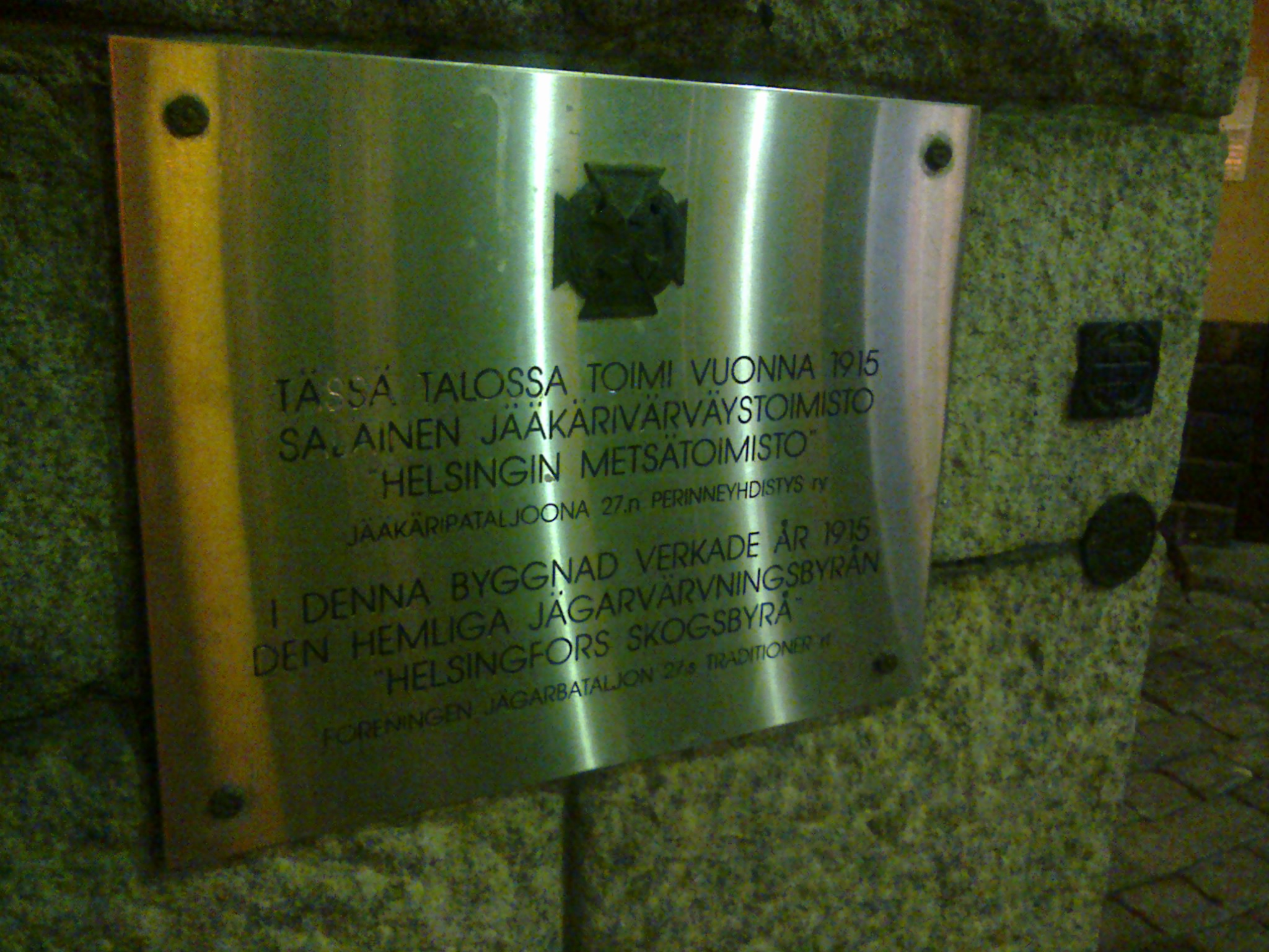 A plaque at Liisankatu 17 in Helsinki: ‘The secret Jäger recruitment centre “Helsinki Forest Bureau” operated in this building in 1915.’